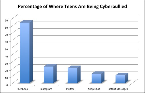 Percentage of what media is being used for cyberbullying